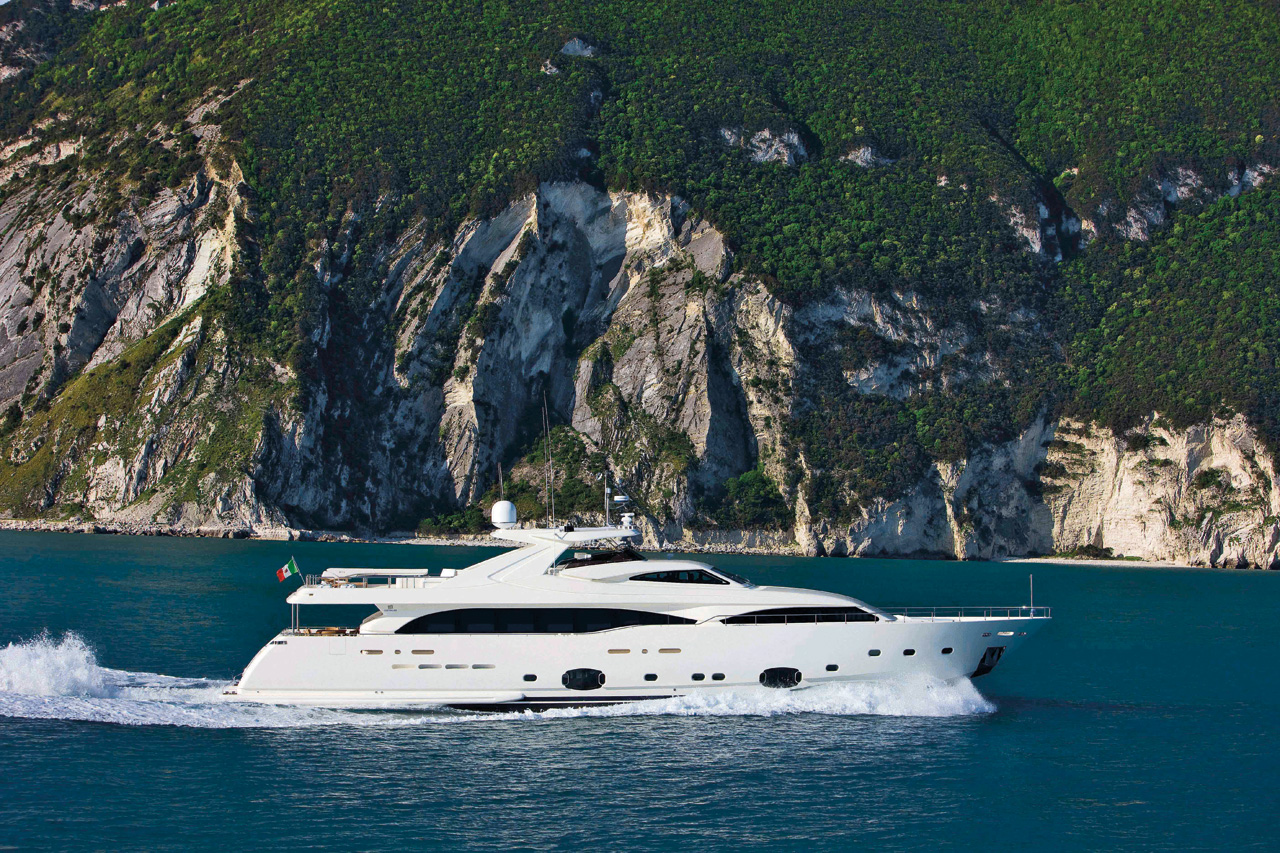 External picture of Custom Line 112' Next yacht